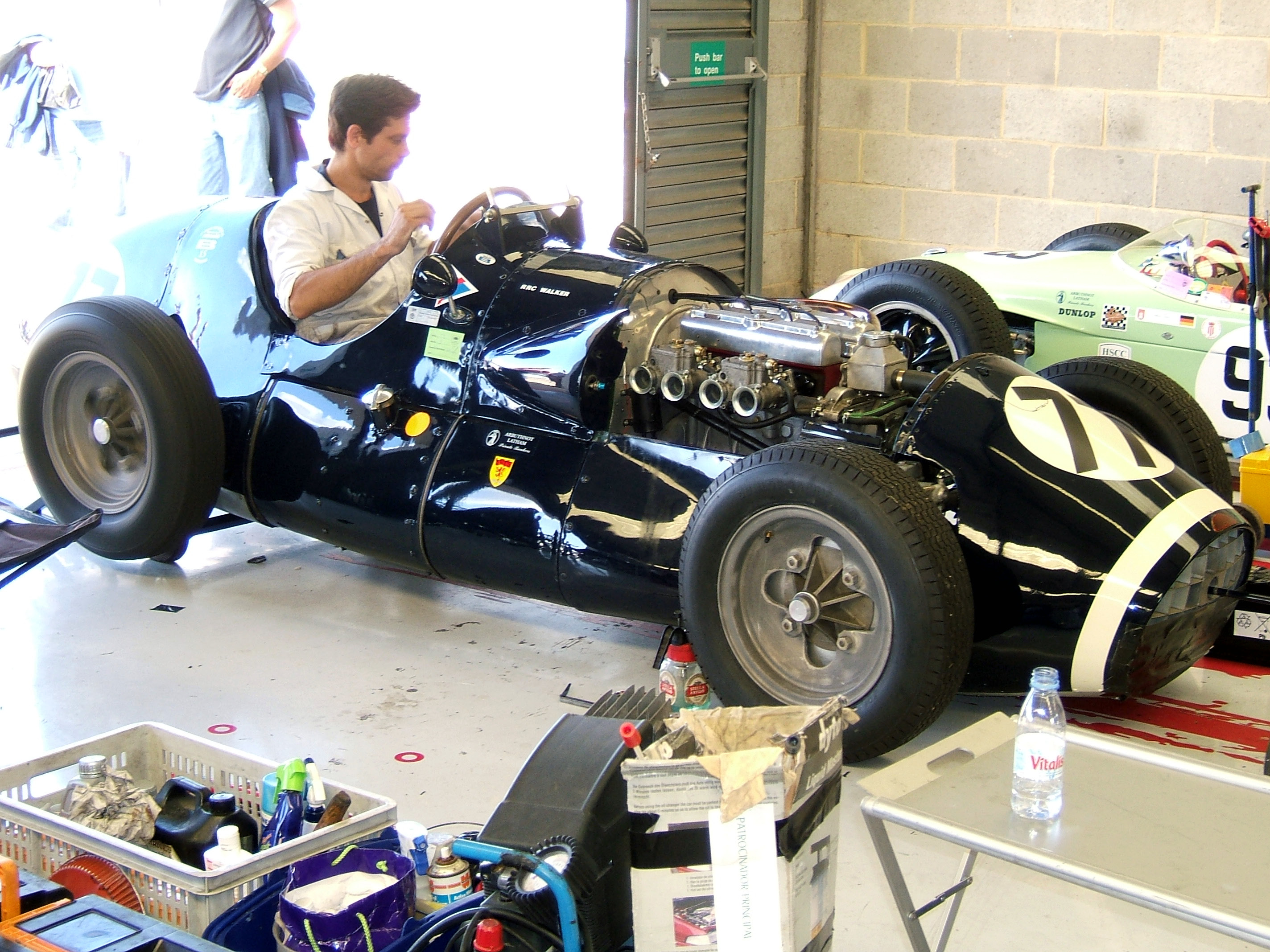 The Rob Walker Racing team Connaught Type A, being run up in the pits at Silverstone, July 2007. Its Lea-Francis straight-4 engine is clearly shown.